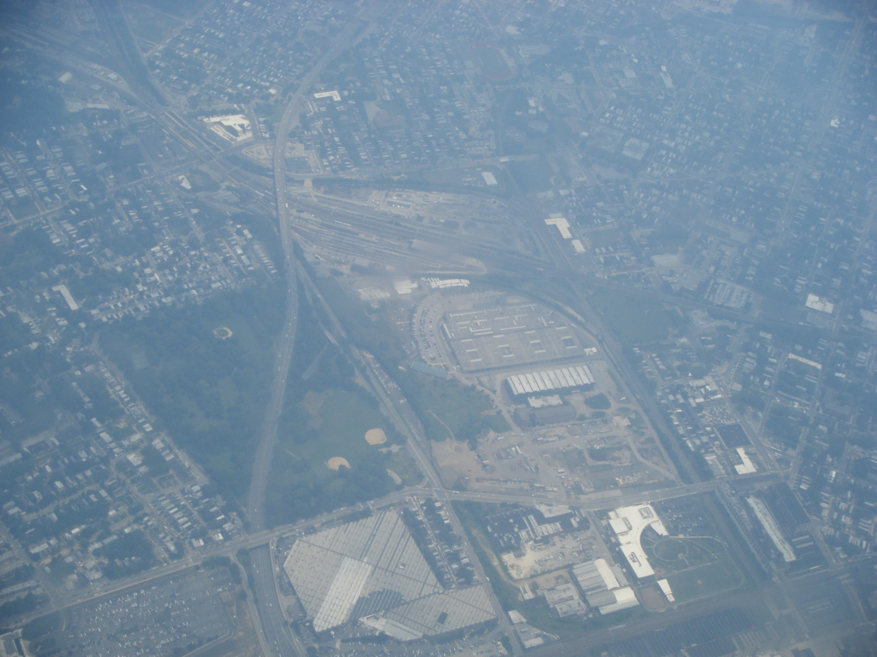 A view of the Nicetown-Tioga neighborhood in the North Philadelphia section of Philadelphia, Pennsylvania taken from an airplane.